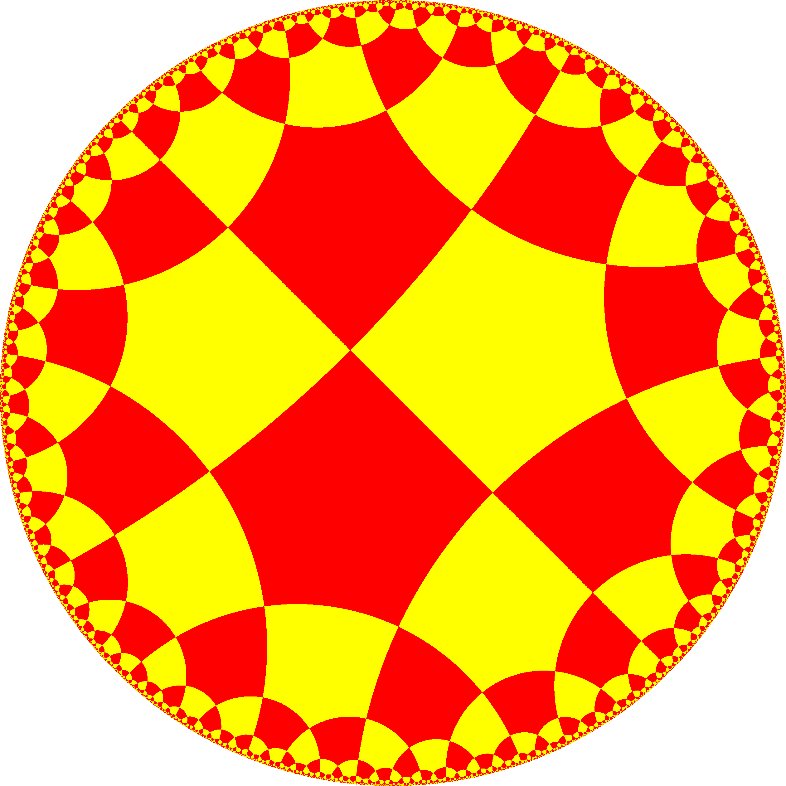 Uniform tiling of hyperbolic plane, o5x5o. Generated by Python code at User:Tamfang/programs. Equivalent: Dual